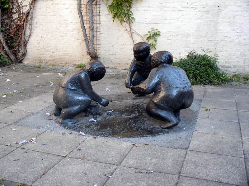 Children playing marbles, Hondstraat, Maastricht, The Netherlands. The sculpture was revealed at Maasboulevard in 1985 as a gift to departing mayor Fons Baeten but was moved to its current location in 2005.